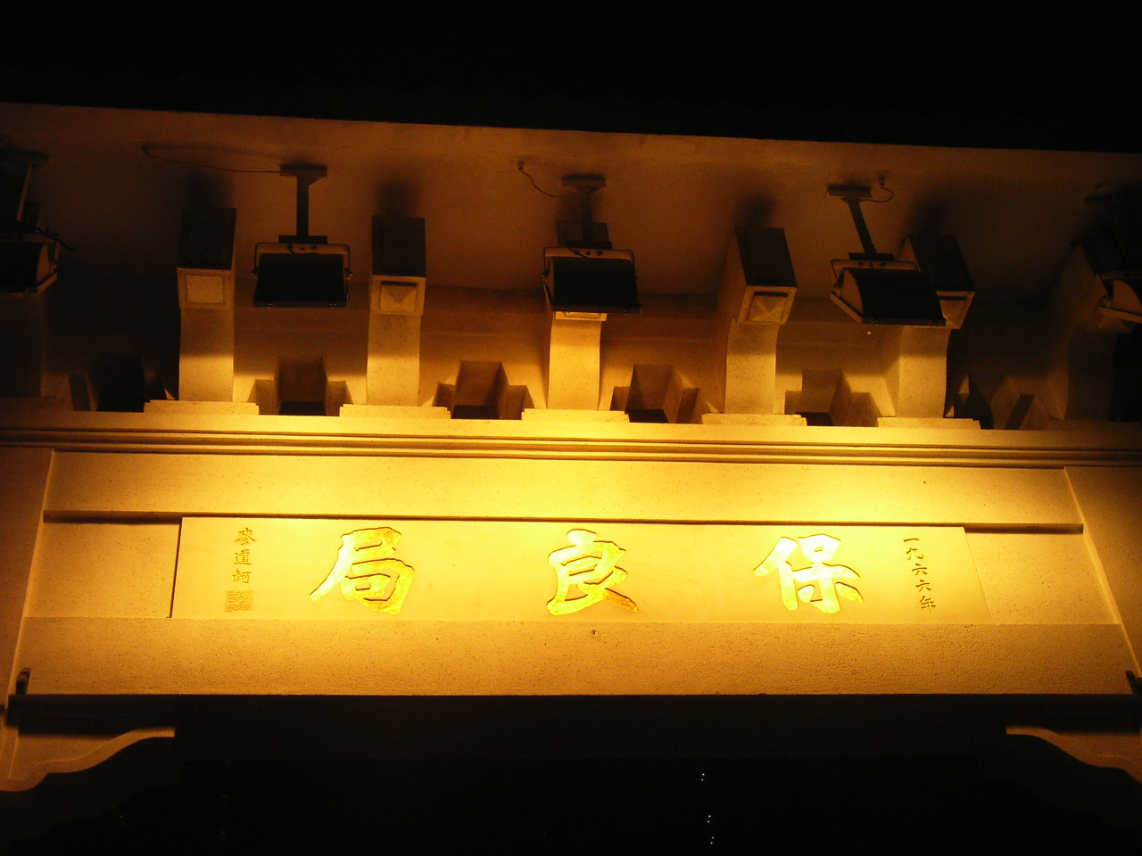 保良局, Po Leung Kuk. Photo author is me.